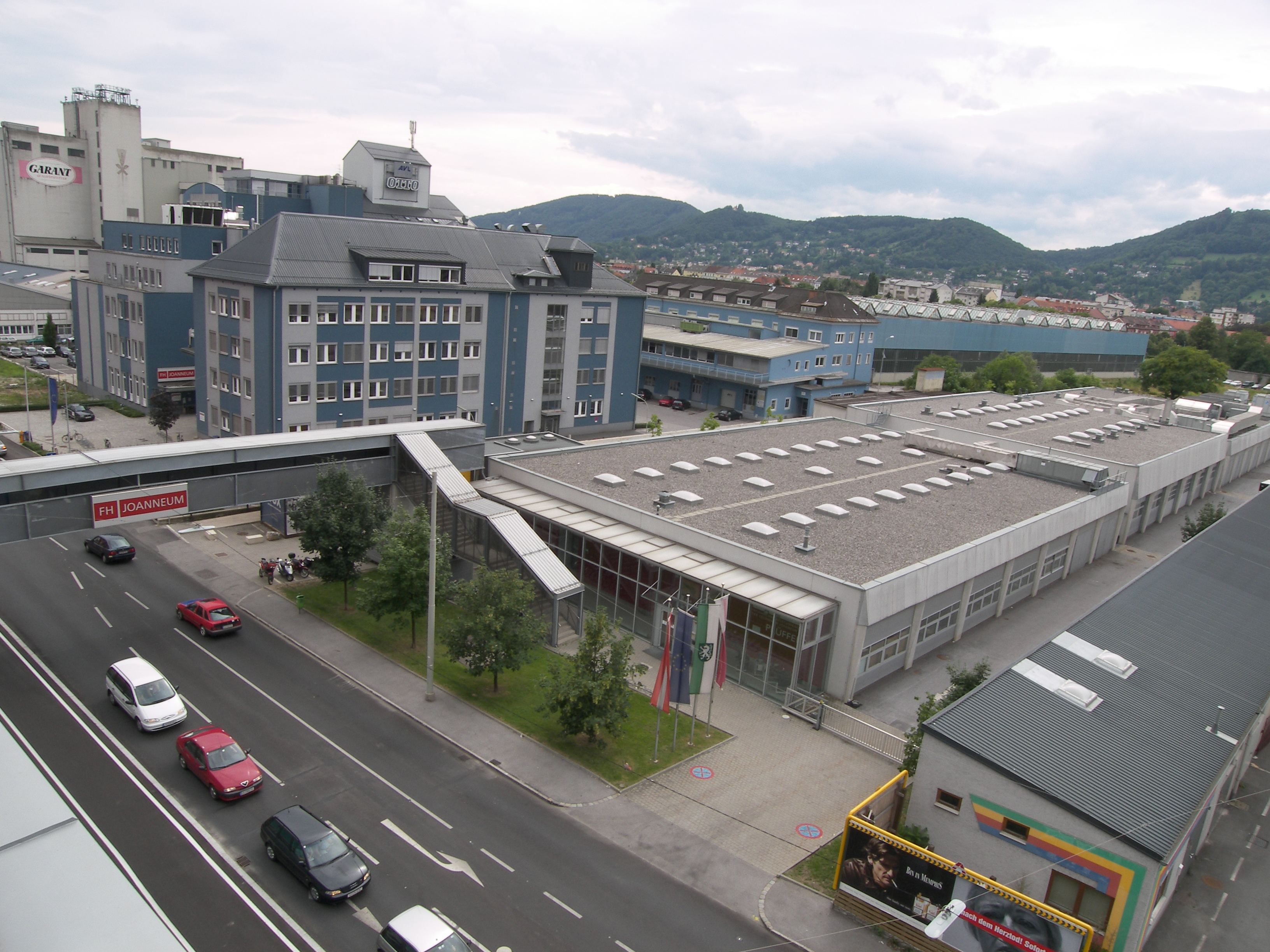 FH JOANNEUM Graz, Austria - Prüffeld Fahrzeugtechnik (Automotive Engineering Labs, flat building), blue building to the left of it: Alte Poststrasse 154